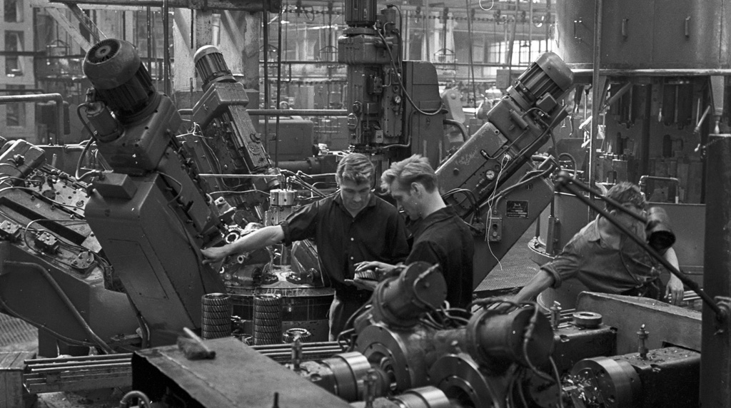 “Workers of Moscow Likhachev Automotive Plant”. Moscow Likhachev Automotive Plant. Lathe assemblers brothers Anatoly and Valery Karavanov, center.